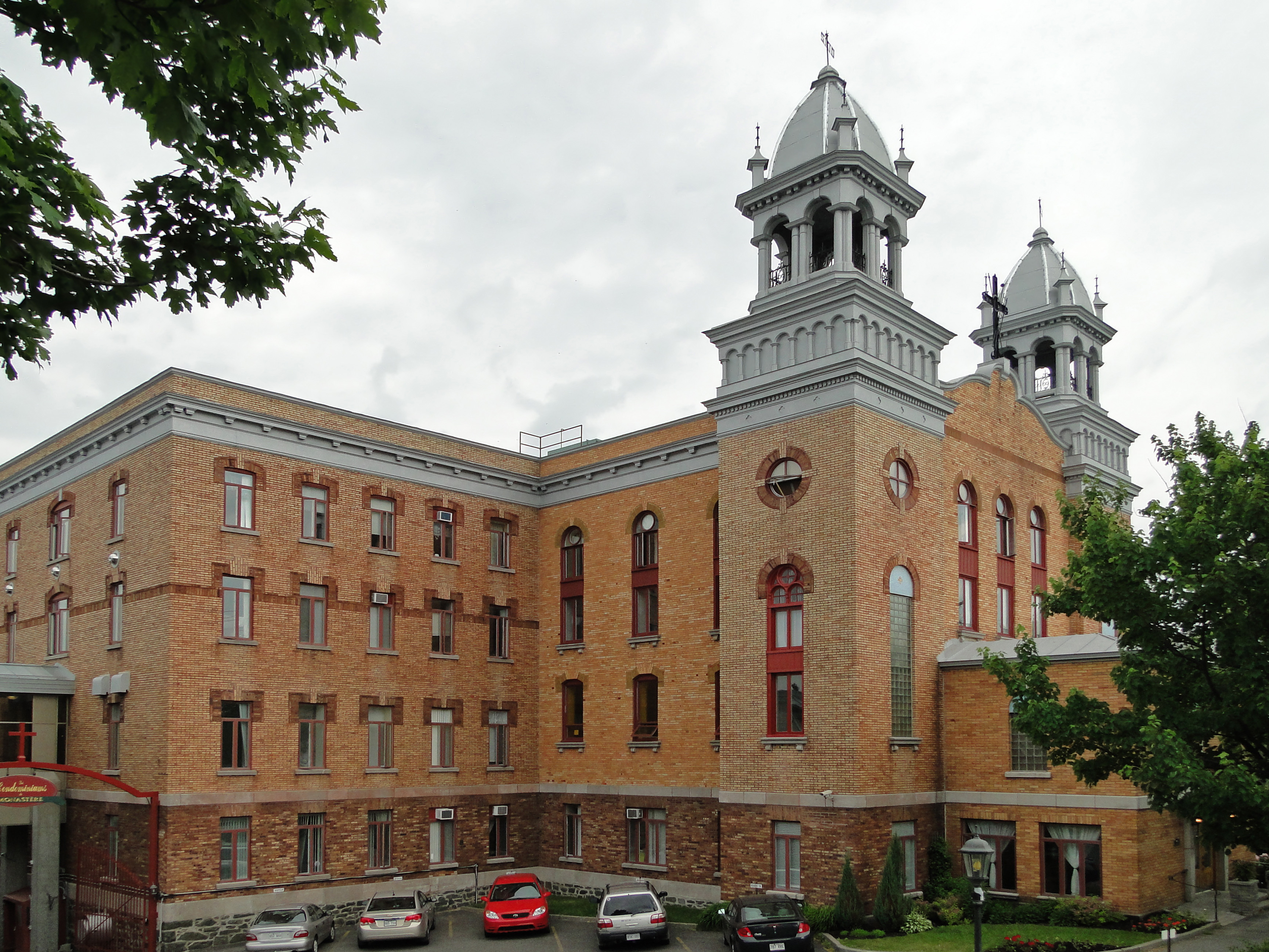 Monastery of Adorers of the Precious Blood, Lévis, province of Quebec, Canada